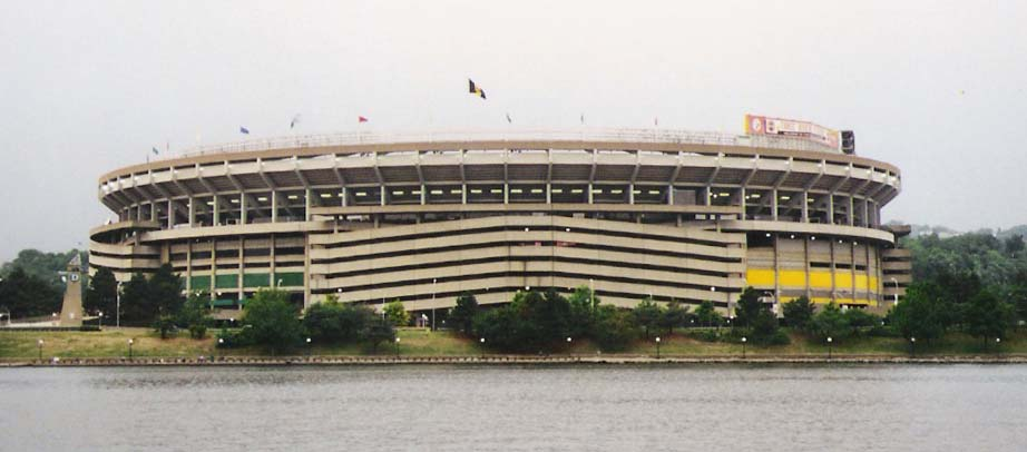 Three Rivers Stadium, Pittsburgh, PAThree Rivers Stadium